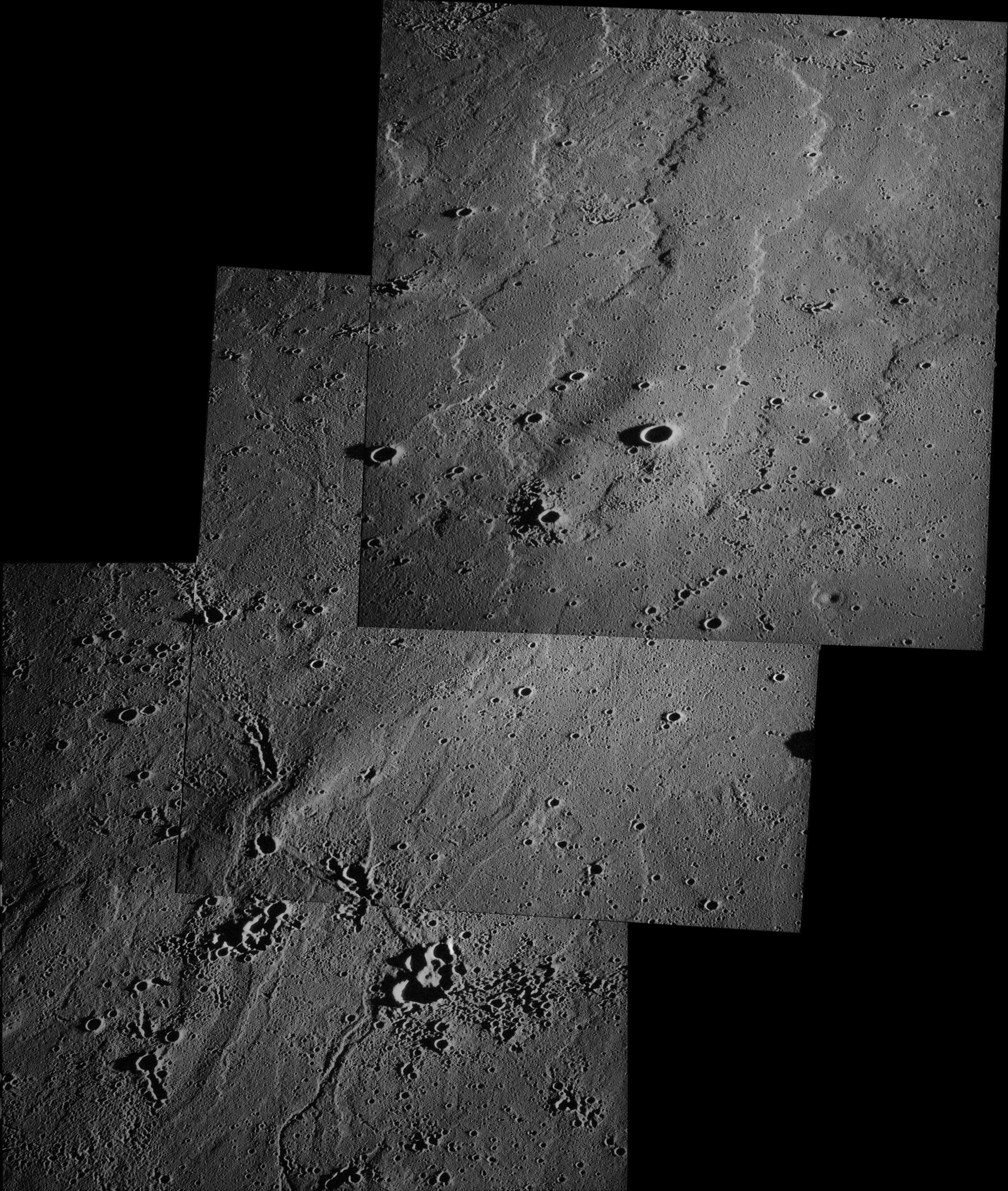 Approximate replication of Figure 4-63 of the Apollo 17 Preliminary Science Report (SP-330, 1973), which has the following caption:Mosaic of photographs of a portion of Mare Imbrium just north of the crater Euler showing multiple flow lobes and flow fronts. Distance from lower left to upper right is approximately 110 km.